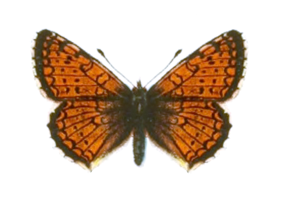 Melitaea arcesia Brem. f. chuana Gr.-Grsh. = Melitaea arcesia chuana Grum-Grshimailo, 1893, ♂